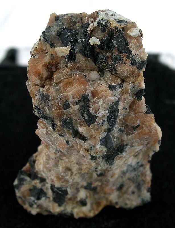 Hauckite, Pyrochroite Locality: Sterling Mine, Sterling Hill, Ogdensburg, Franklin Mining District, Sussex County, New Jersey, USA (Locality at ) Size: 2.6 x 1.7 x 1.1 cm. A rare validated specimen of the extremely rare mineral species named after Franklin area collector Richard Hauck, consisting of several eye-visible microcrystal clusters on contrasting matrix (pale whitish color), with minor Pyrochroite (Black) in association . Almost seventy new mineral species have been described from the unique Franklin area, and this is one that remains unique to Sterling Hill, to my knowledge.